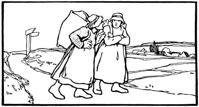 Illustration by Otto Ubbelohde to the fairy tale My Household